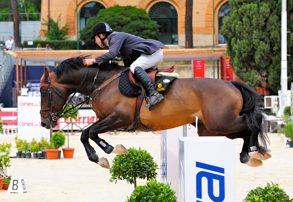 The British show jumper Michael Whitaker and Tackeray, a bay Dutch Warmblood stallion, born in the year 2000. CSIO "Piazza di Siena" Rome 2009